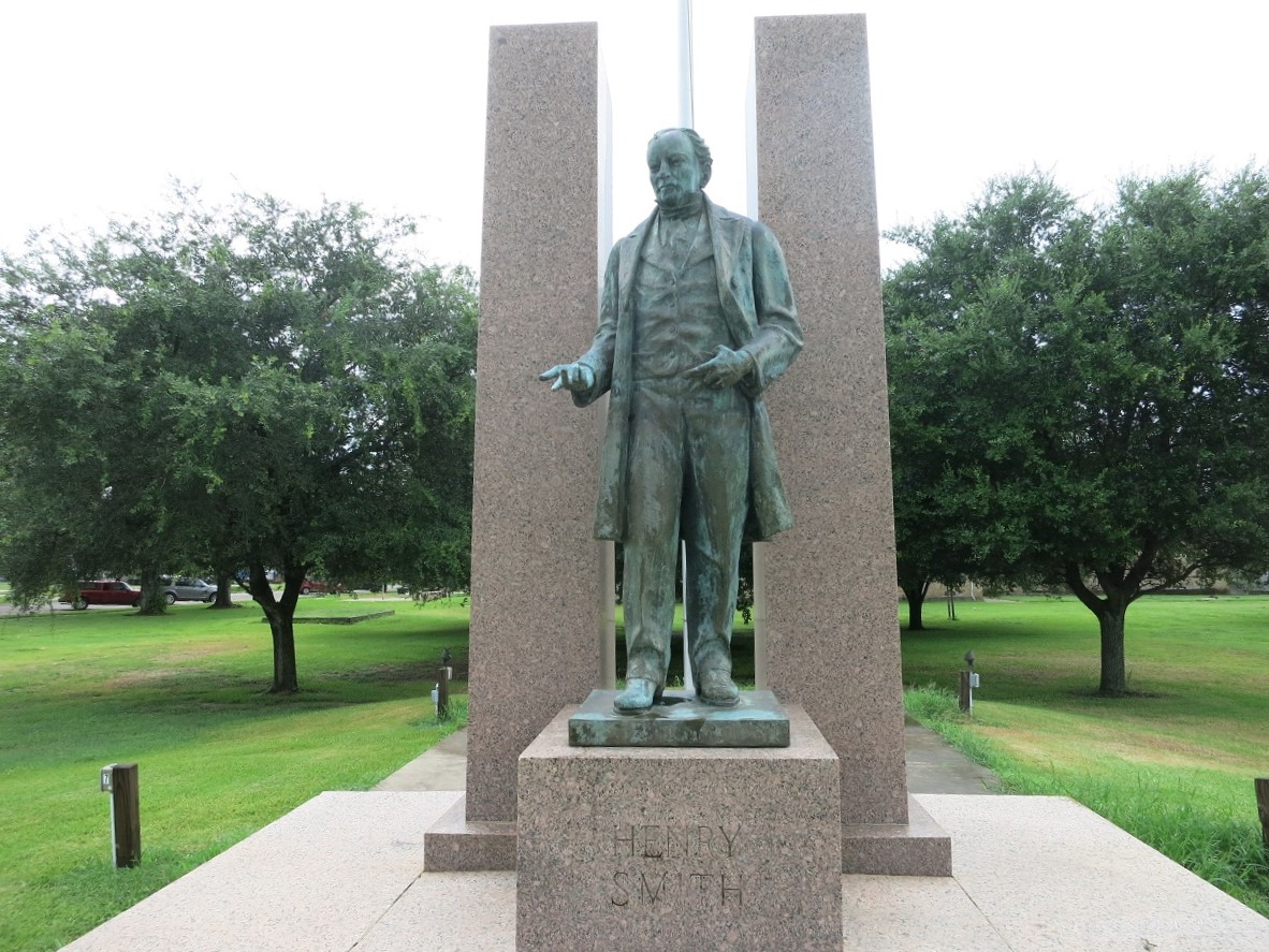 Photo shows a statue of Henry Smith who was briefly the first American-born governor of the territory of Texas when it was still part of Mexico. The statue is at the Civic Center at 202 W Smith St, Brazoria, TX 77422, along State Hwy 36. The view is toward the west.